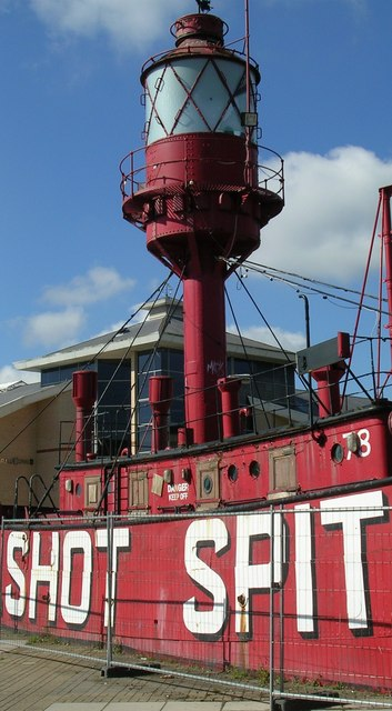 Calshot Spit Light Vessel